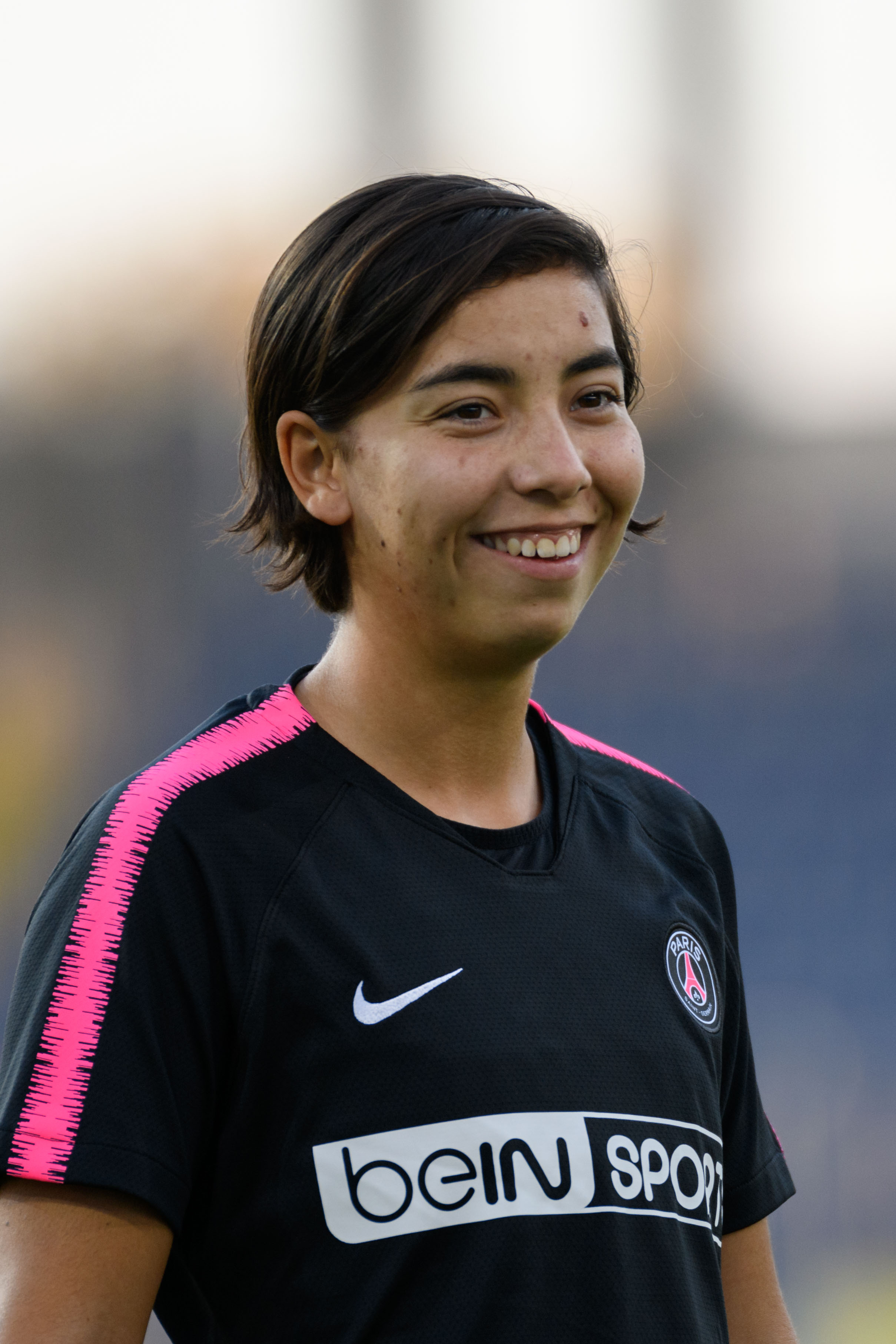 UEFA Women's Champions League 2019 Final Round of 32 SKN St.Poelten vs. Paris Saint Germain 2018/09/12. Picture shows Anahita Zamanian Bakhtiari of PSG